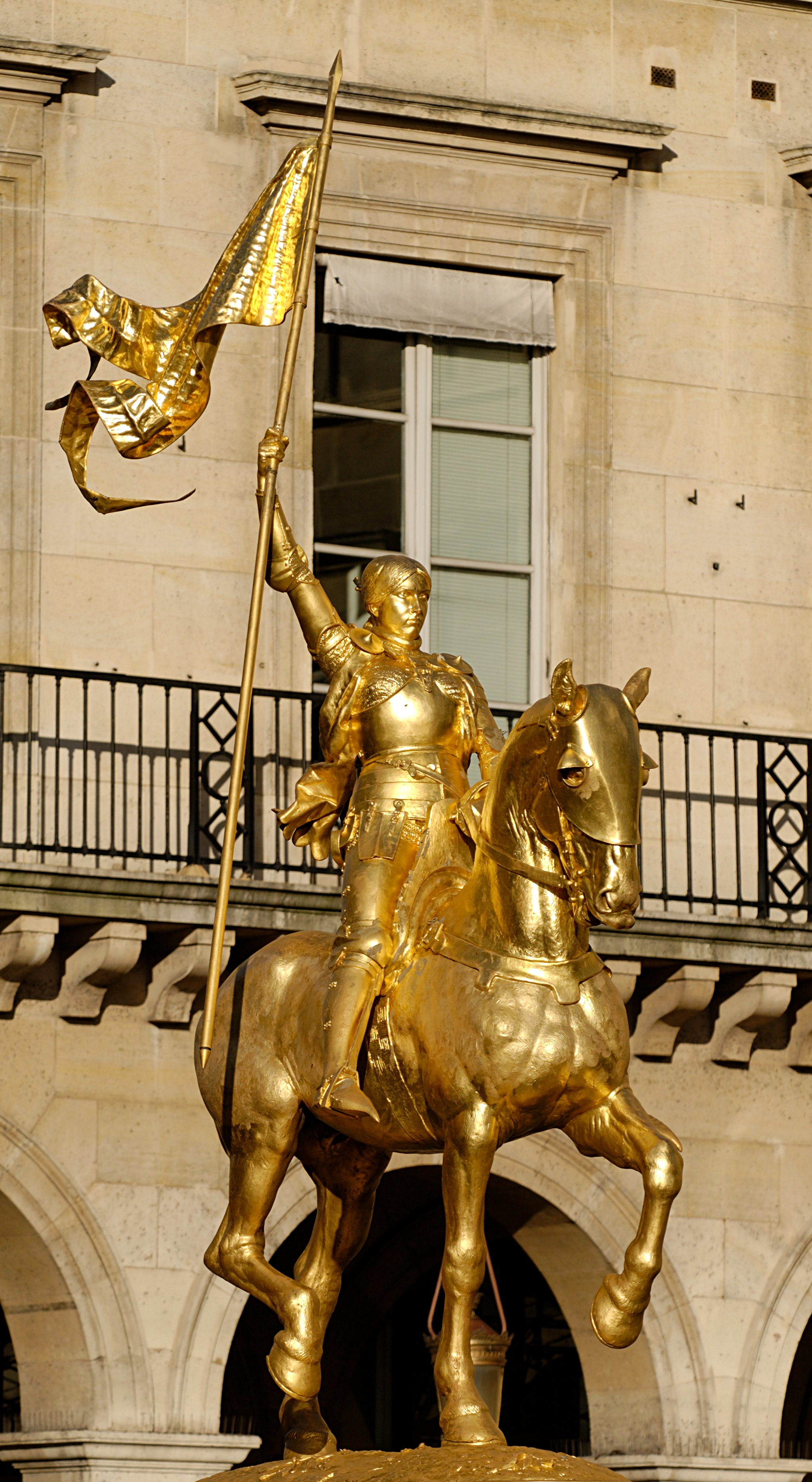 Equestrian statue of Joan of Arc by Emmanuel Frémiet (French, 1824–1910) at the Place des Pyramides, in Paris. Gilt bronze, 1899.